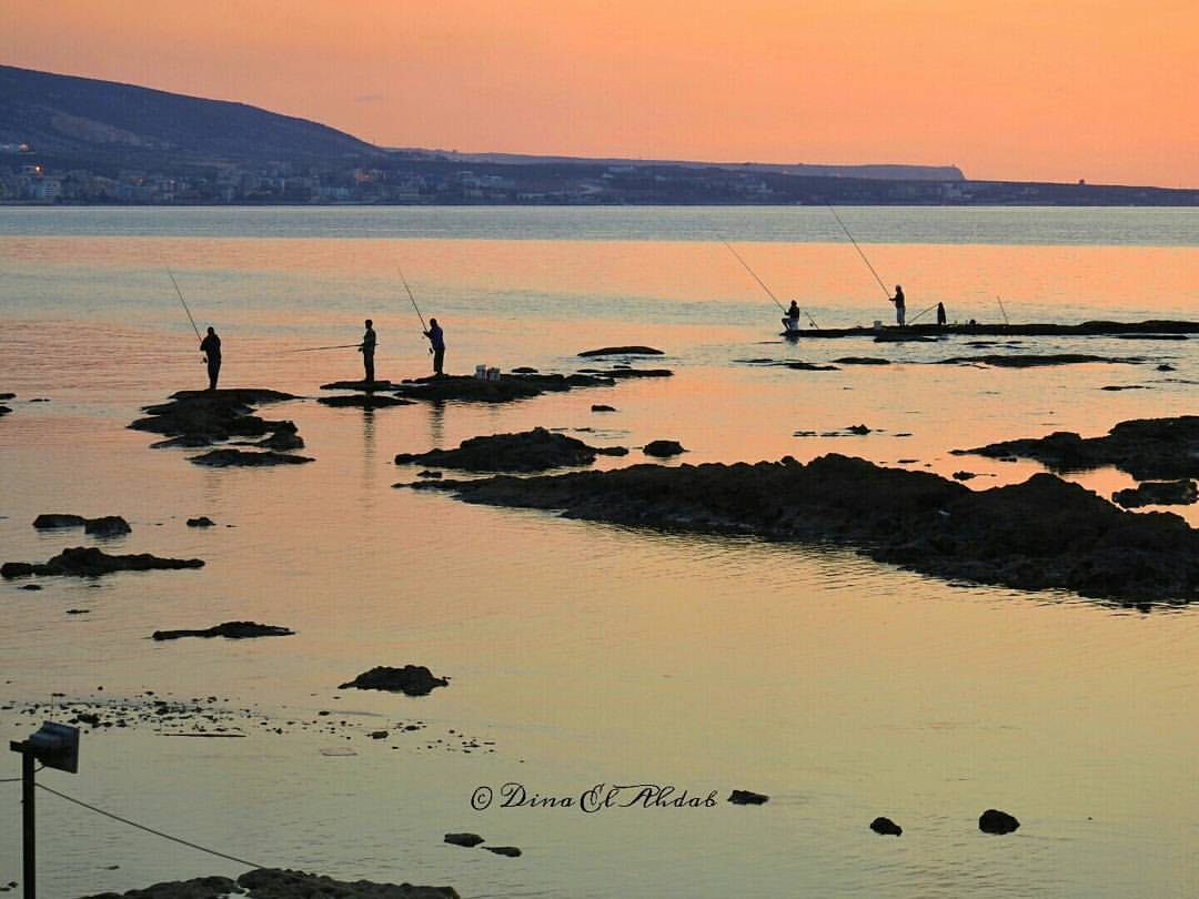 Mina, Tripoli on the mediterranean sea.